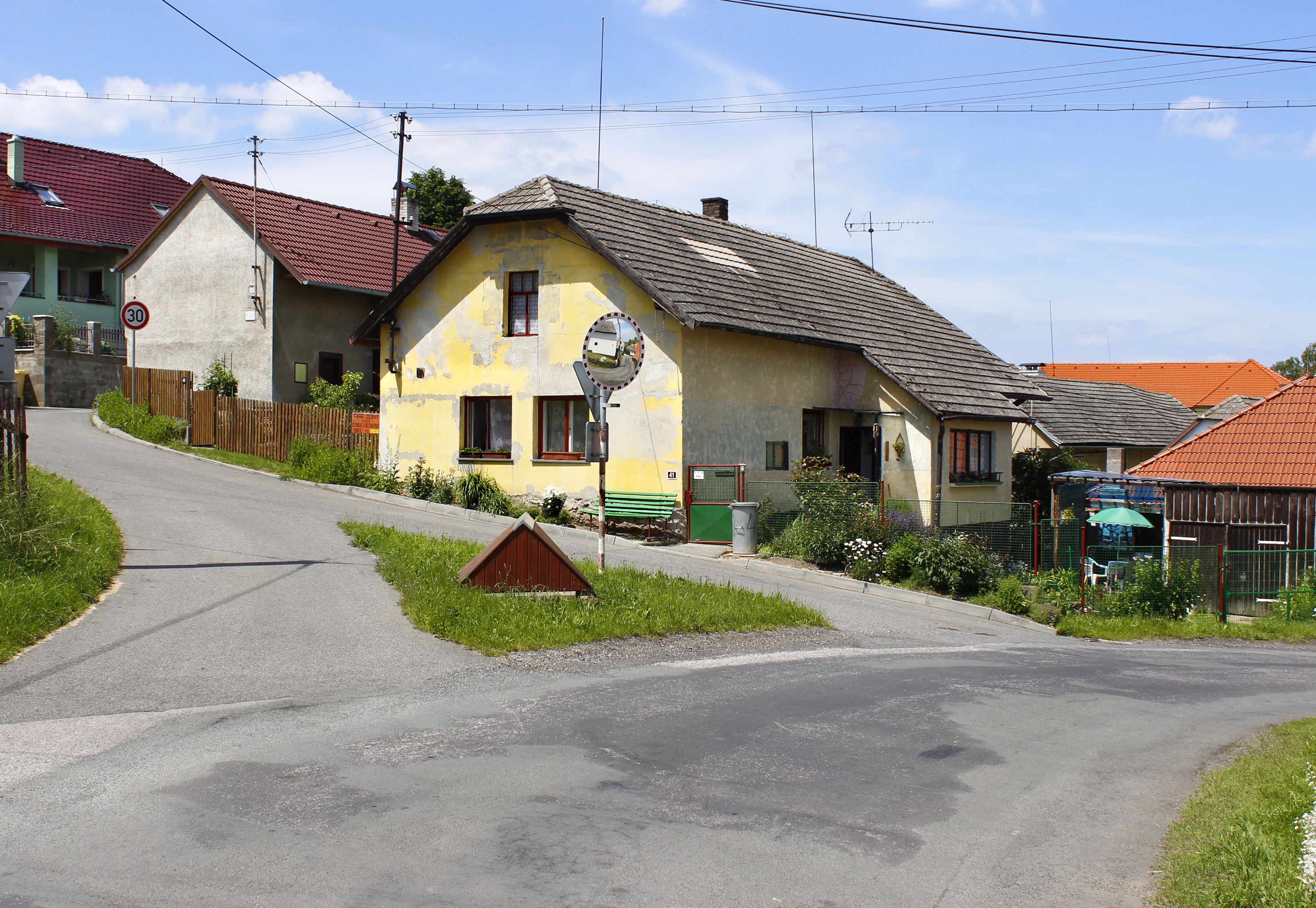 South part of Újezd, Beroun District, Czech Republic